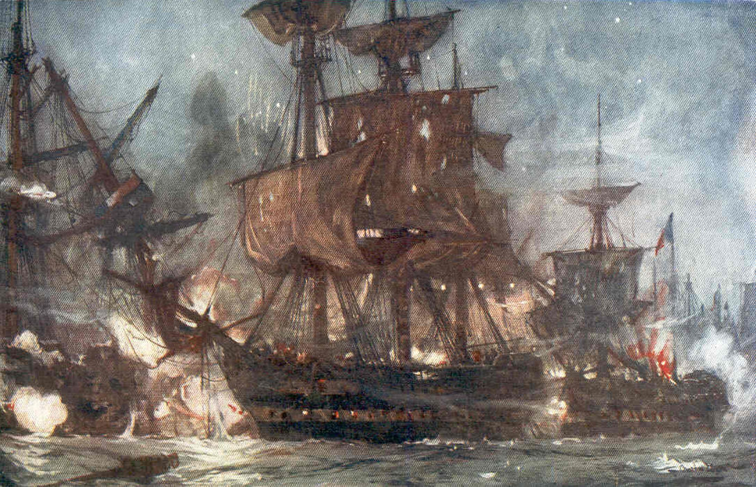 A painting of the ship of the line HMS Majestic during the Battle of the Nile in 1798. Painted by Charles Dixon (1872-1934) and published in 1901.